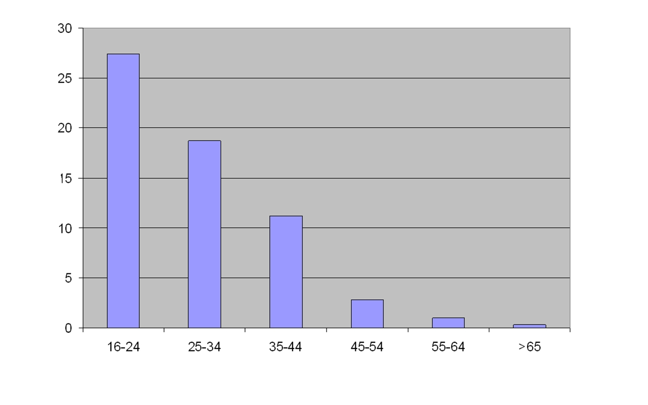 Percentage of pierced people by age group. Data based on a 2005 survey in the United Kingdom (excluding Lobe-piercing). Sample size=10.503